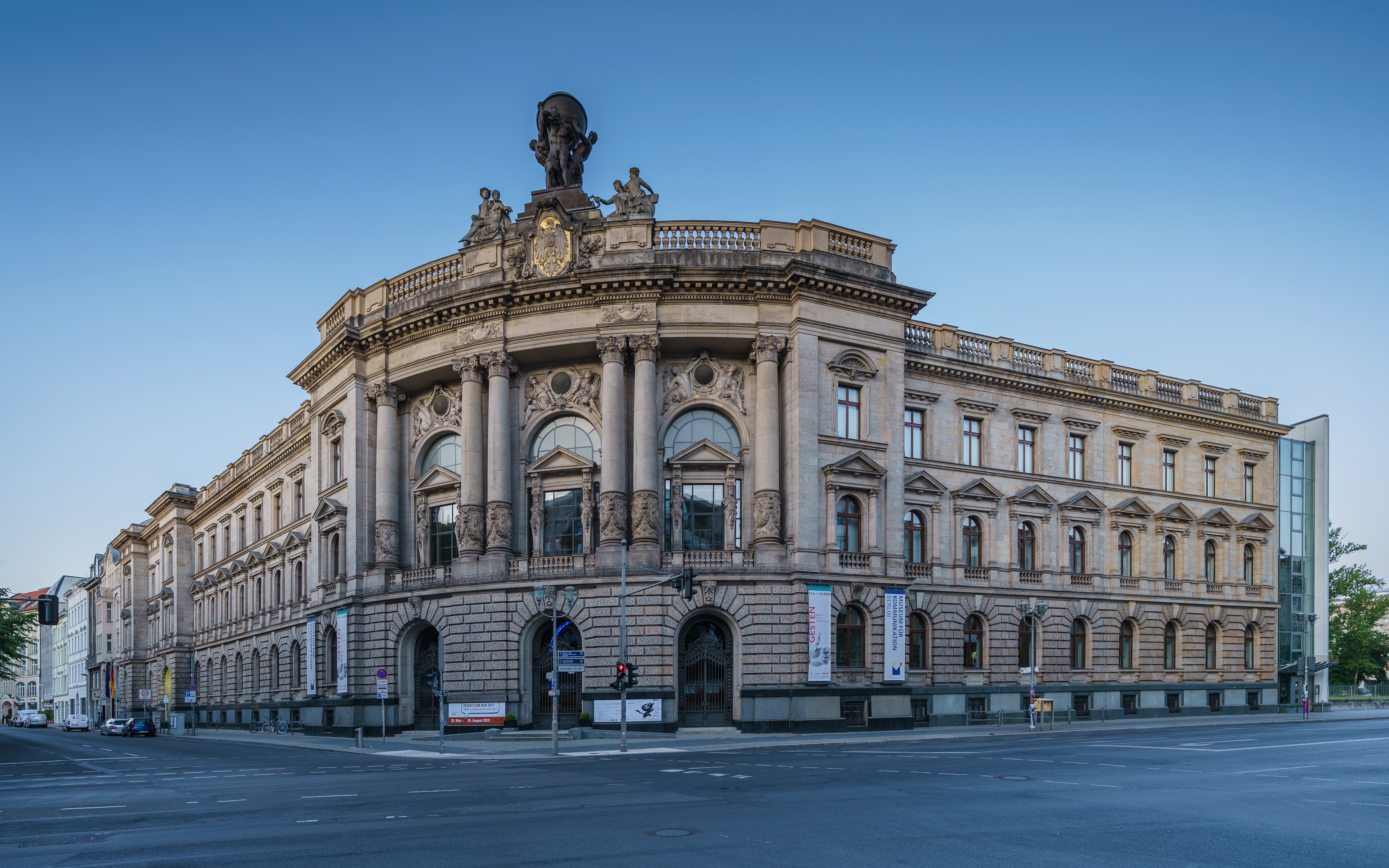 Museum for Communication in Berlin, Germany